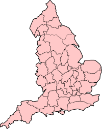 Ceremonial counties in England before 1964.